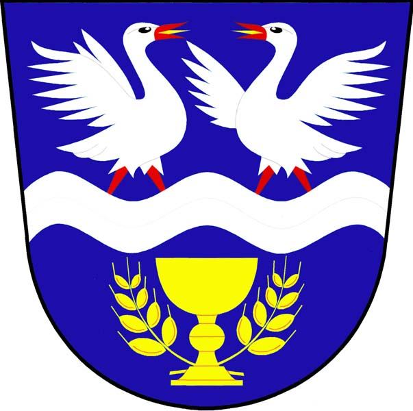 Municipal coat of arms of Kšely village, Kolín District, Czech Republic.